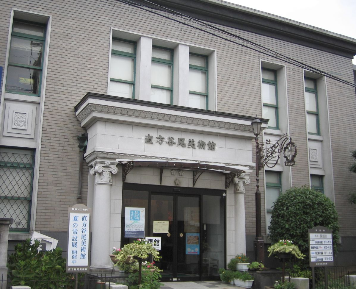 Nogata Tanio Art Museum, Fukuoka